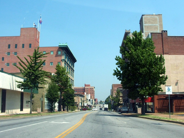 Main Street in Joplin, Missouri